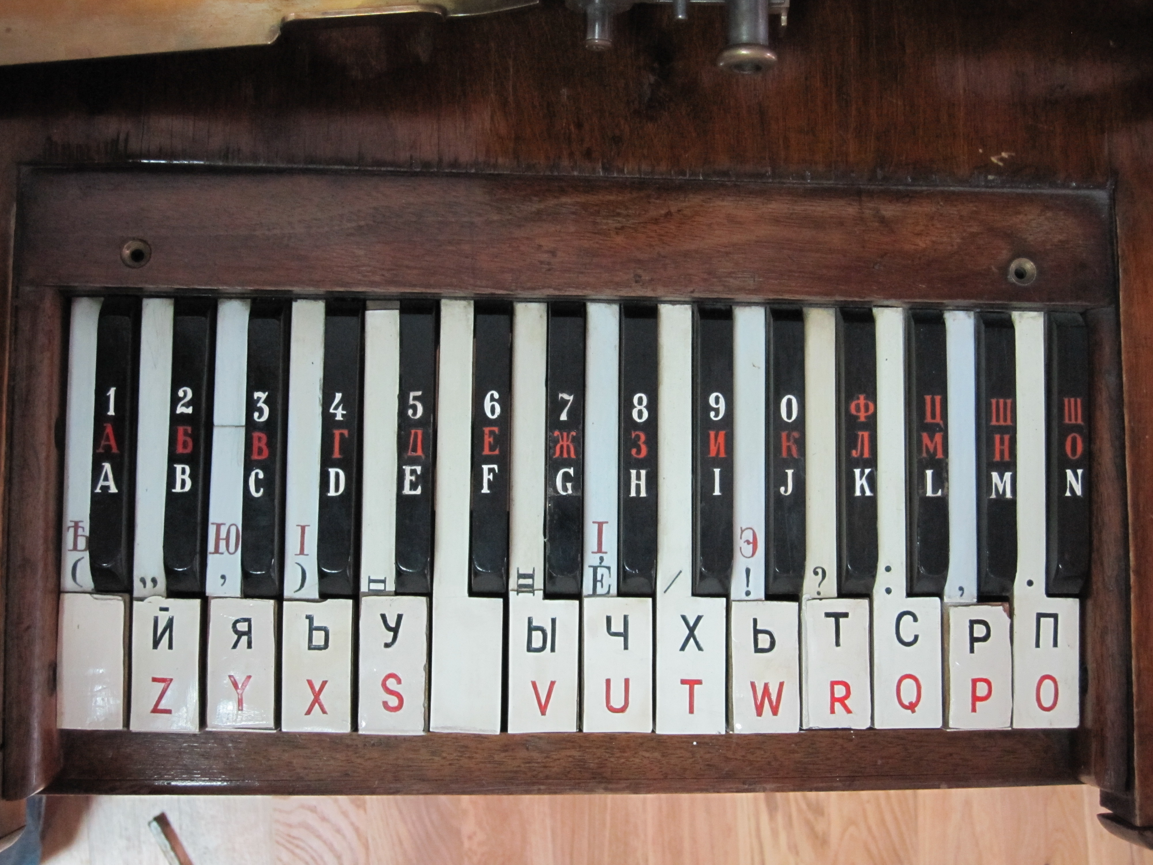 Photo of a unique telegraph keyboard based on a piano keyboard